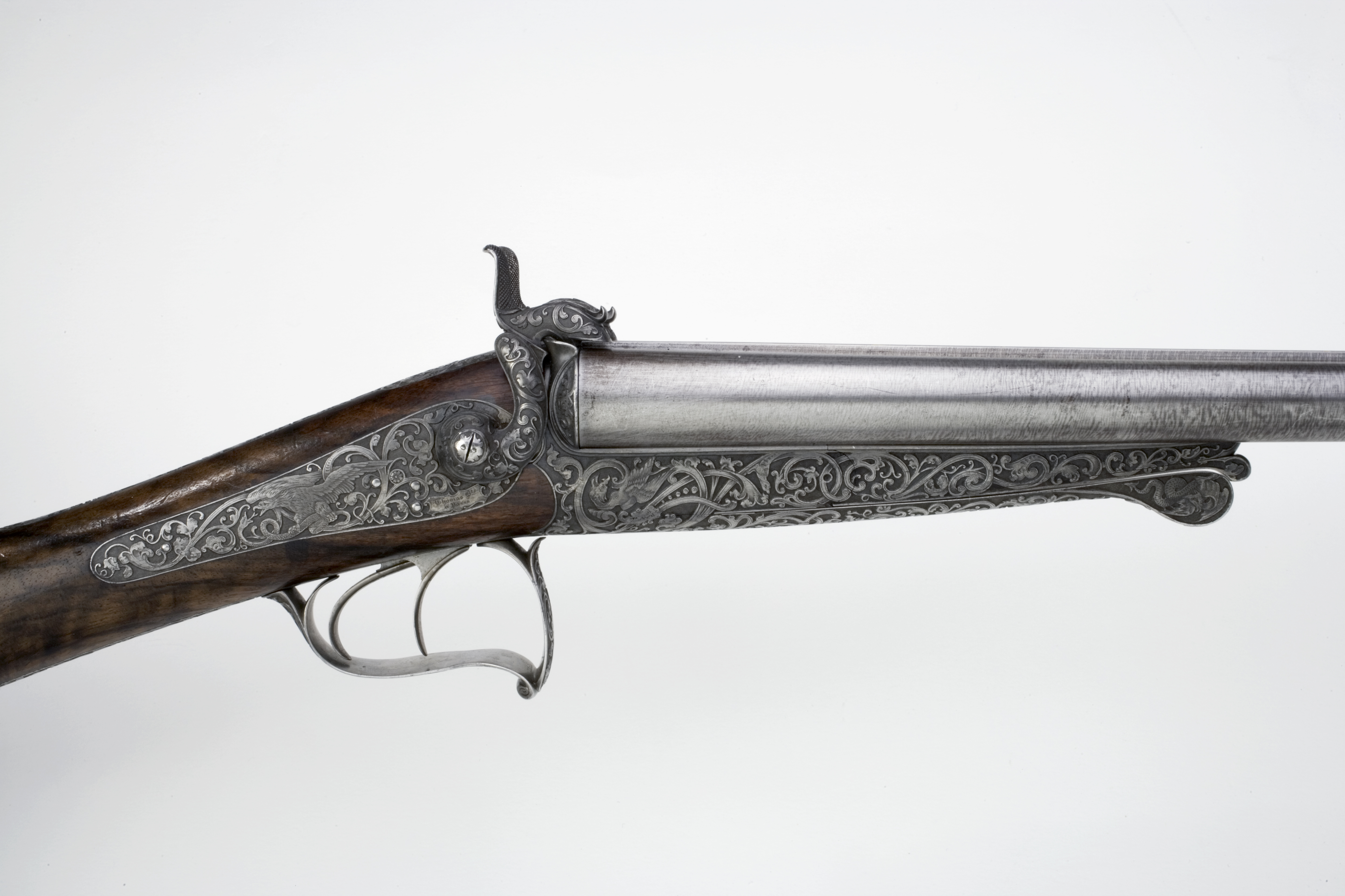 Note: For documentary purposes the original description has been retained. Factual corrections and alternative descriptions are encouraged separately from the original description.detalj dubbelbössa - LRK 6487 Nyckelord: Bössa, Föremålsbild